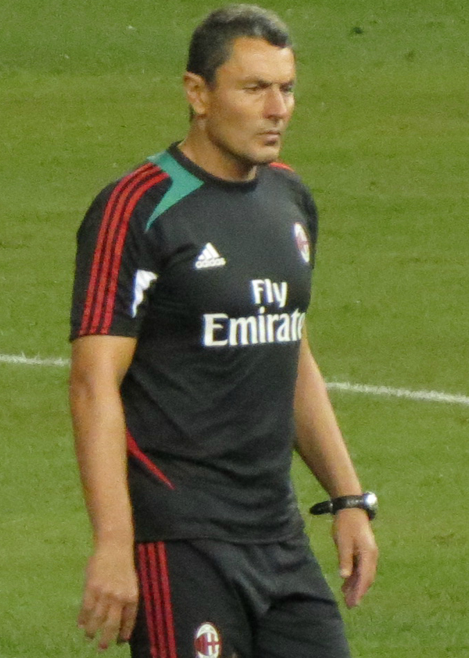 AC Milan coaches Simone Folletti and Marco Landucci, Antonio Nocerino at bottom of the photo.